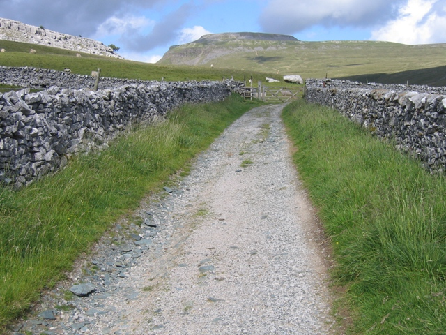 Fell Lane towards the fell gate and Ingleborough